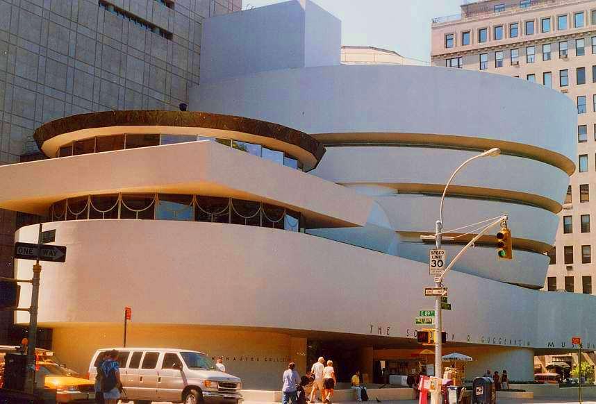 Solomon R. Guggenheim Museum